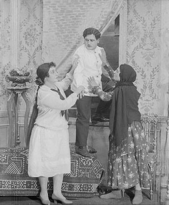 Scene from perfomance of "Meshadi Ibad" (or "If not that one, then this one") in Azerbaijan State Theatre of Opera and Ballet. Director Abbas Mirza Sharifzade.